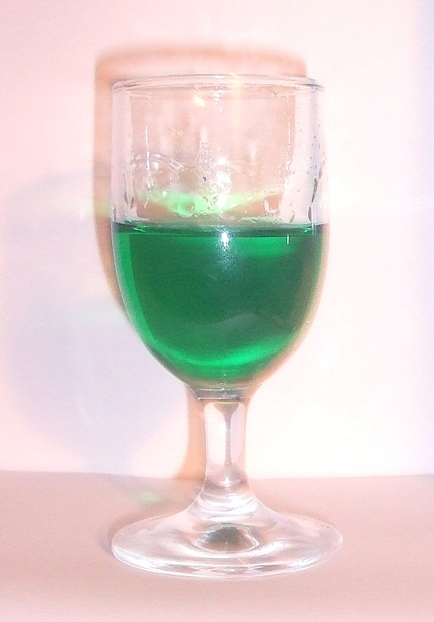 A small glass of Crème de menthe